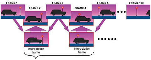 프레임과 프레임사이의 인터폴레이션(interpolation)프레임